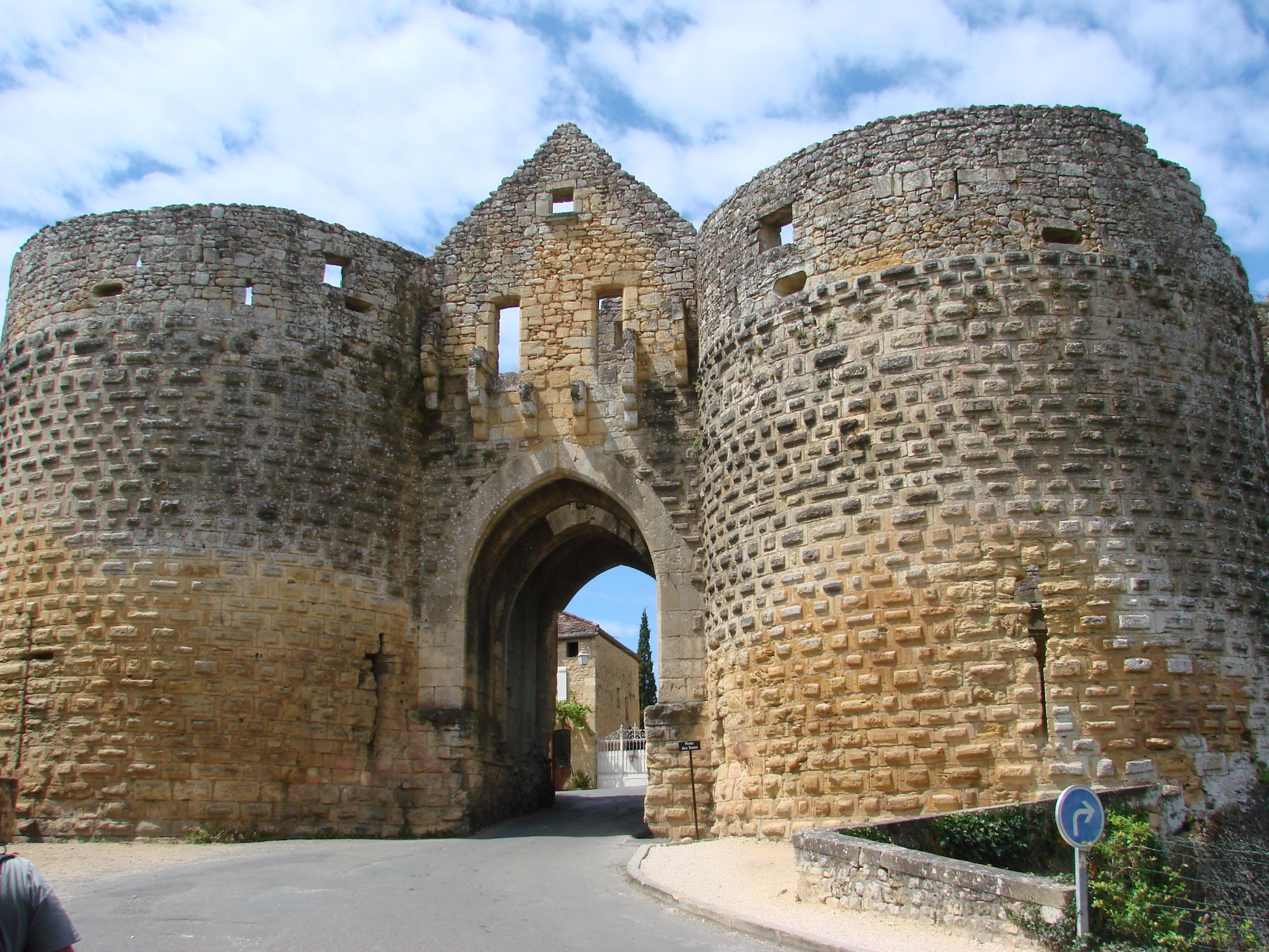 Domme, outside view of Port des Tours Object location44° 48′ 03.8″ N, 1° 12′ 48.8″ E